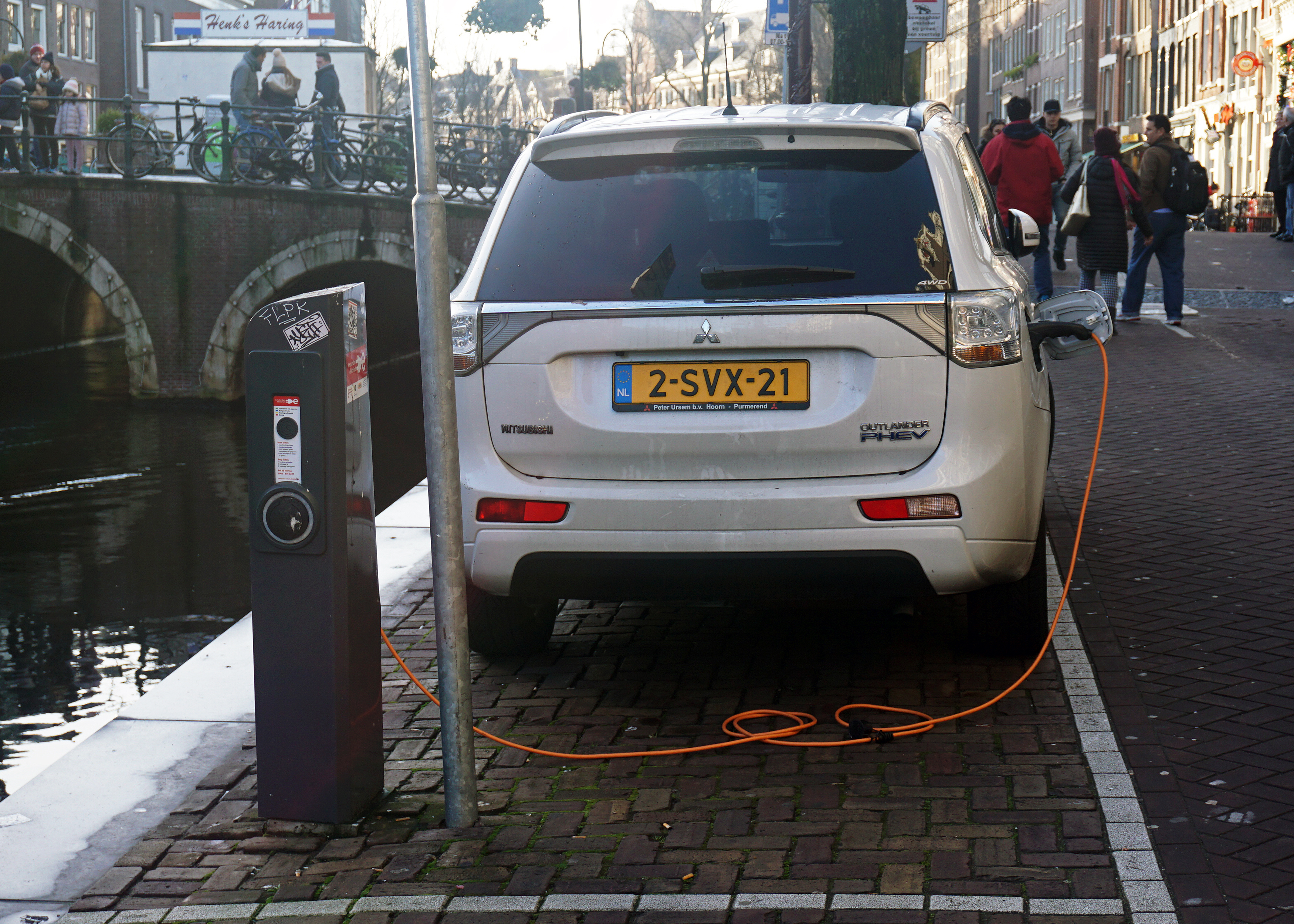 Mitsubishi Outlander PHEV in Amsterdam